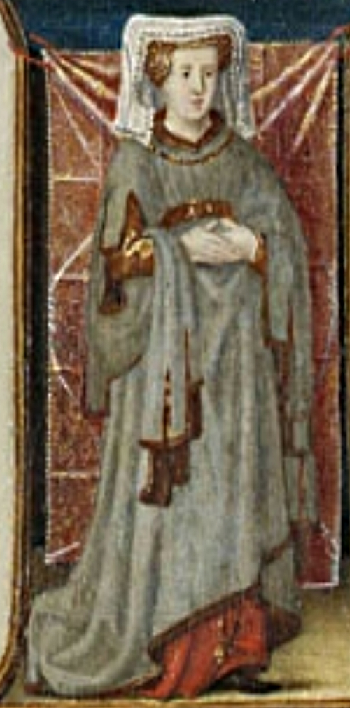 Matilda of Saxony, Countess of Flanders